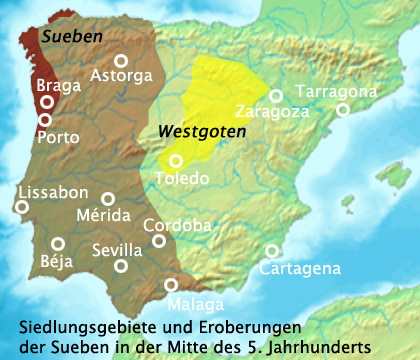 Expansion of the Suevi Kingdom and main areas of Germanic settlement in the Iberian Peninsula in the mid of the 5th century